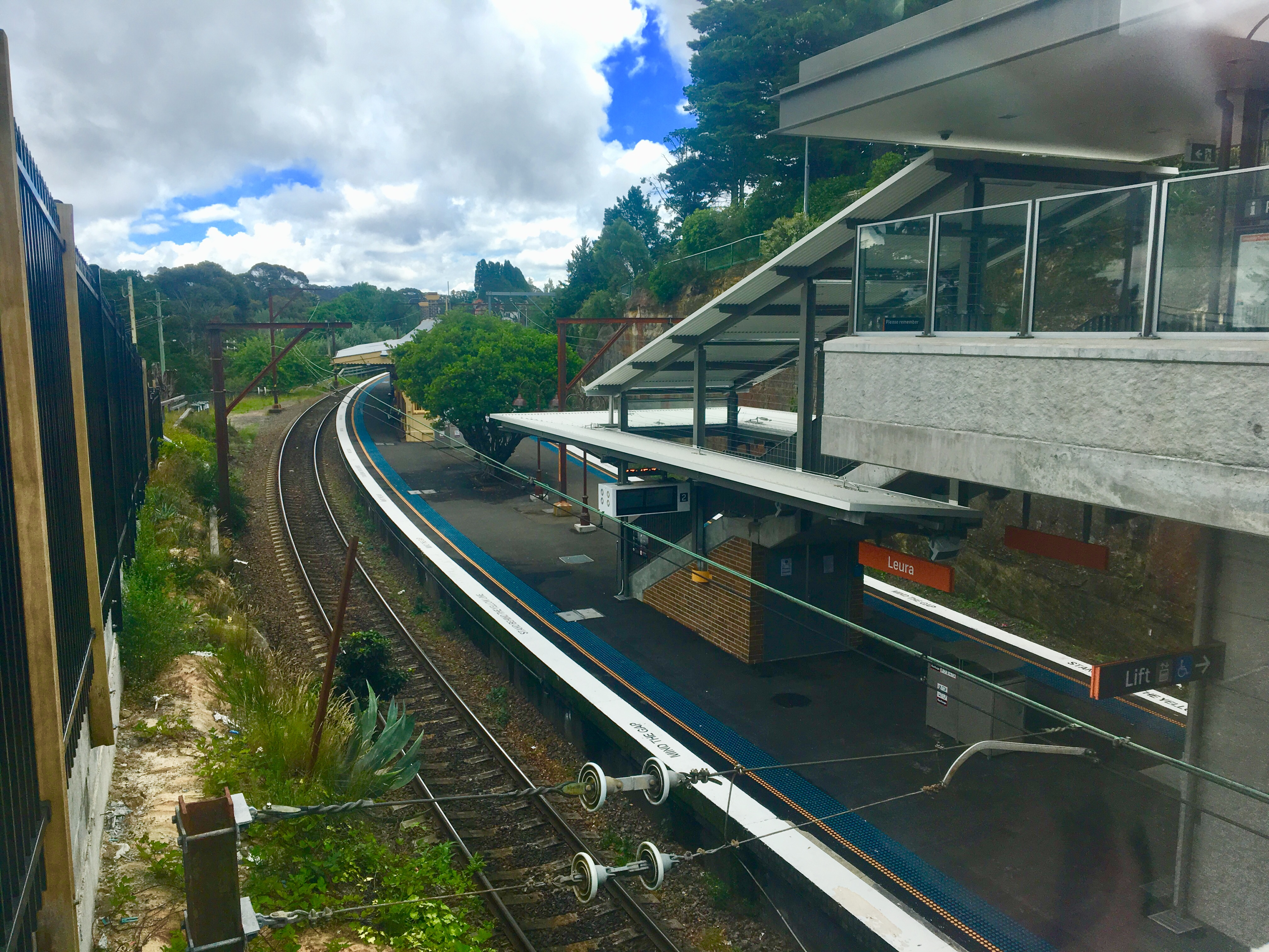 Leura railway station, New South Wales, Australia, on December 22nd 2018